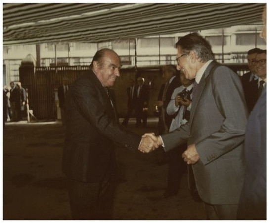 Nuccio Bertone (left) and mayor of Milano, Aldo Aniasi (right) on 21 September 1984. At the presentation of the Alfa Romeo 90 which was made 1984 to 1987.